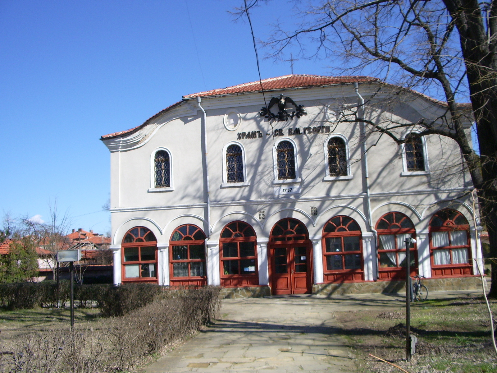 St. George Church - Yambol, Bulgaria